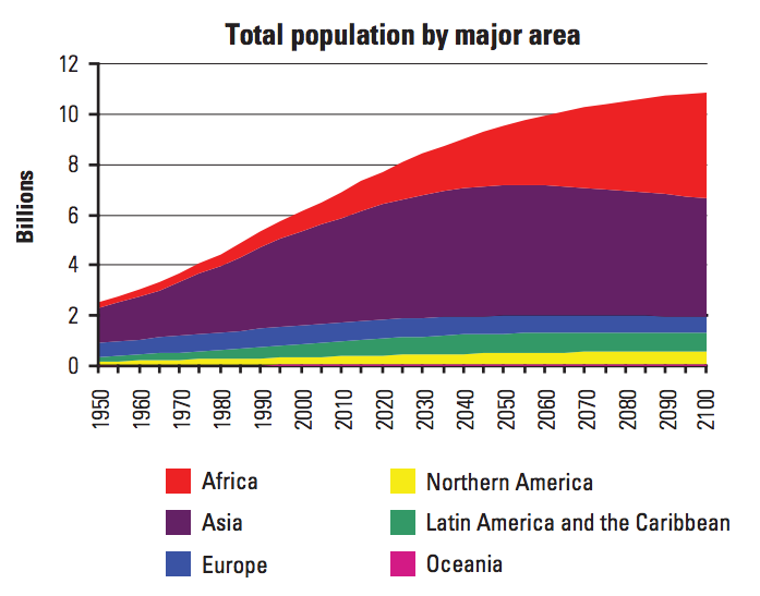 Chart